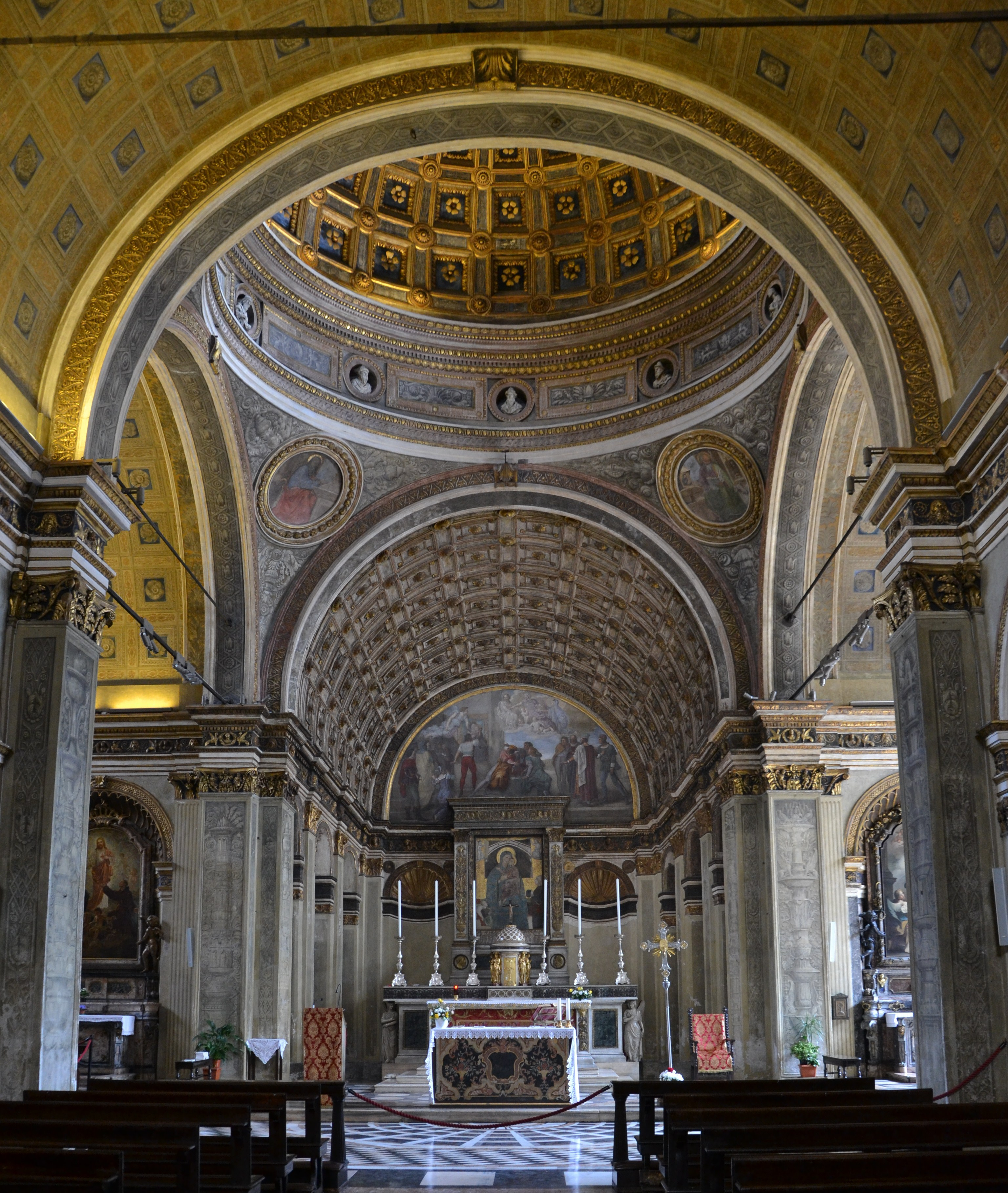 Crop from [1]